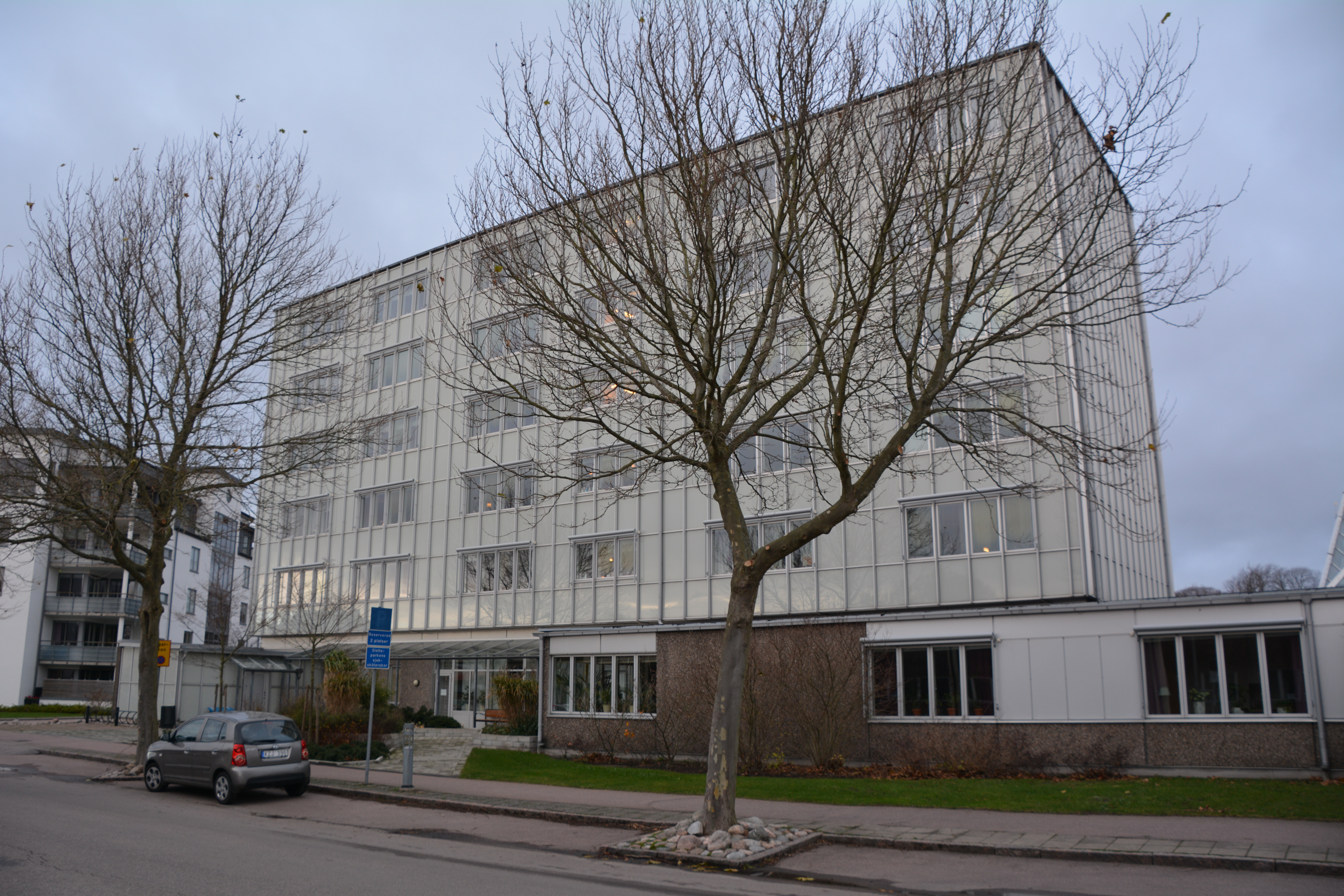 Gamla polishuset i Halmstad, numera Slottsparkens äldreboende